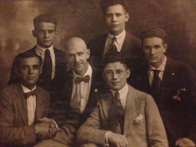 This is a photograph of Eugene V. Debs with a group of young Socialists in Chicago. One of the men, on the far right, is Louis Eisner, the father of the late Professor Elliot Eisner.